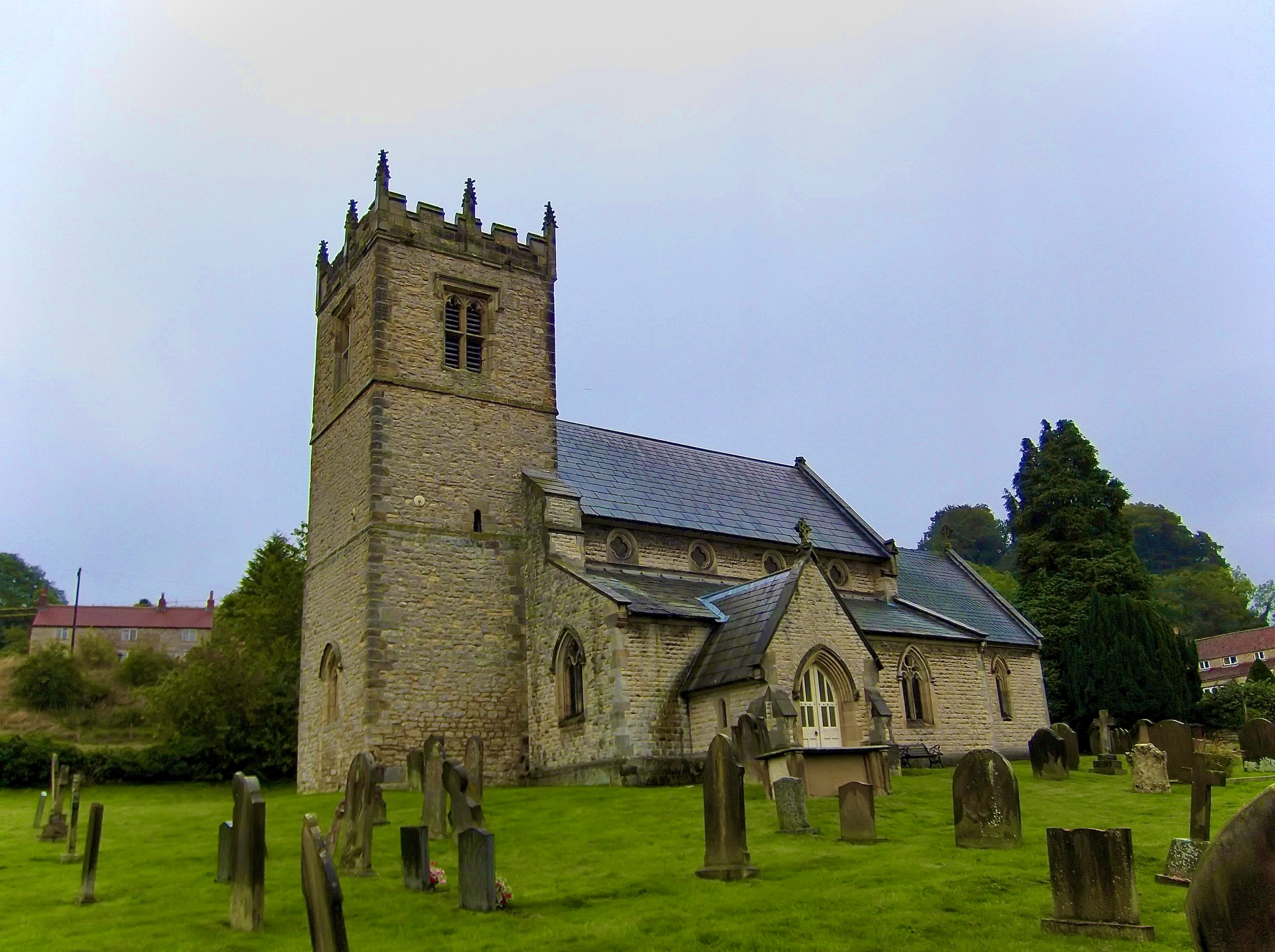 Holy Trinity parish church, Stonegrave, North Yorkshire, England, seen from the southwest